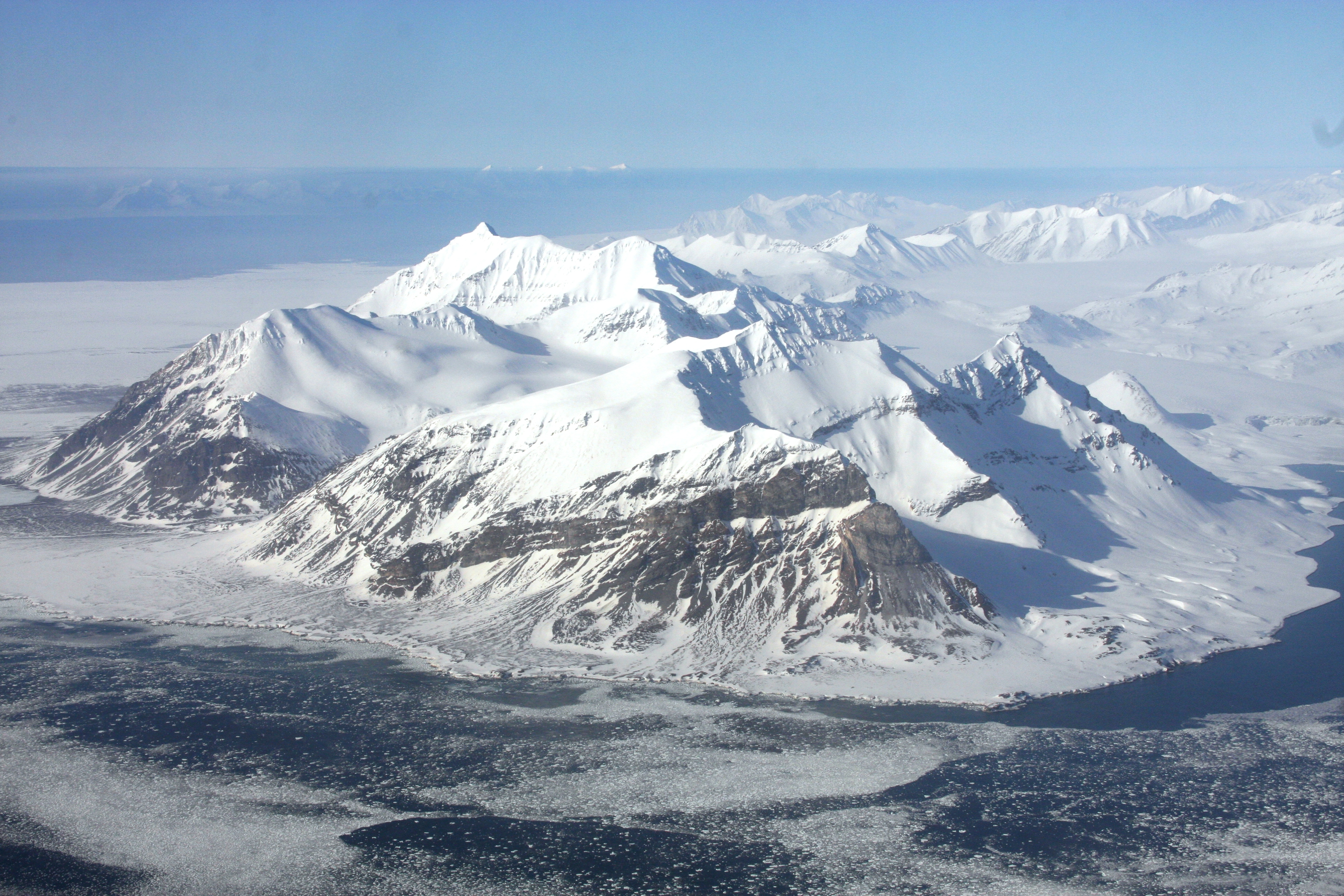 Mountains in Oscar II Land north of Isfjorden, Svalbard